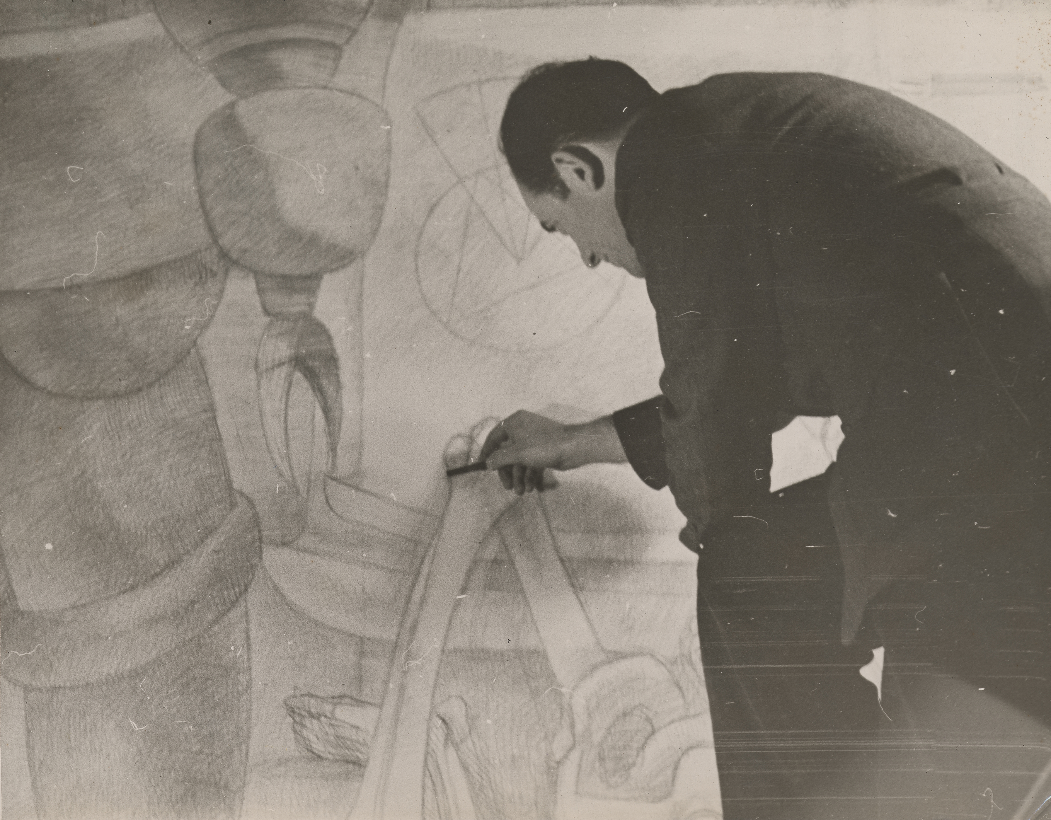 Identification on verso (handwritten and stamped): W.P.A. Federal Art Project; 6 East 39th St., New York, N.Y. Negative No.: P33B Identification on verso (handwritten): Lishinsky (Science Panel) Samuel Tilden H.S. Identification on accompanying label (typewritten): The artist, Abraham Lishinsky, at work on mural for: Samuel Tilden High School, Tilden Avenue and East 57th Street, Brooklyn, N.Y., designed under the direction of the Federal Art Project, New York City, W.P.A. Location: Auditorium; Title: The Major Influences in Civilization; Artist: Abraham Lishinsky; Medium: oil on canvas.